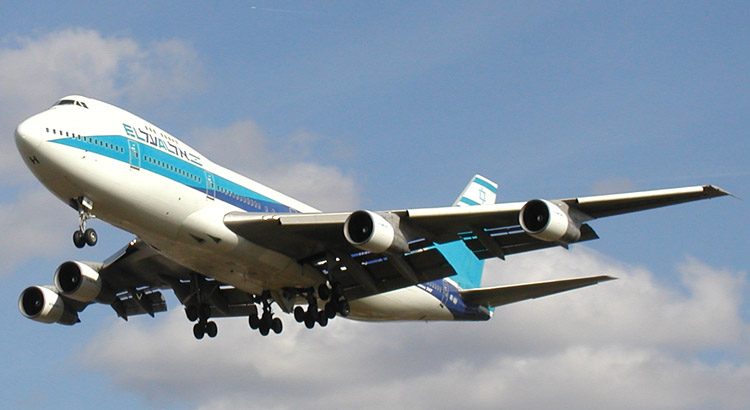 Boeing 747 of El Al on the approach to London (Heathrow) Airport.